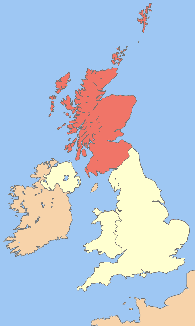 Image of Scotland in the UK